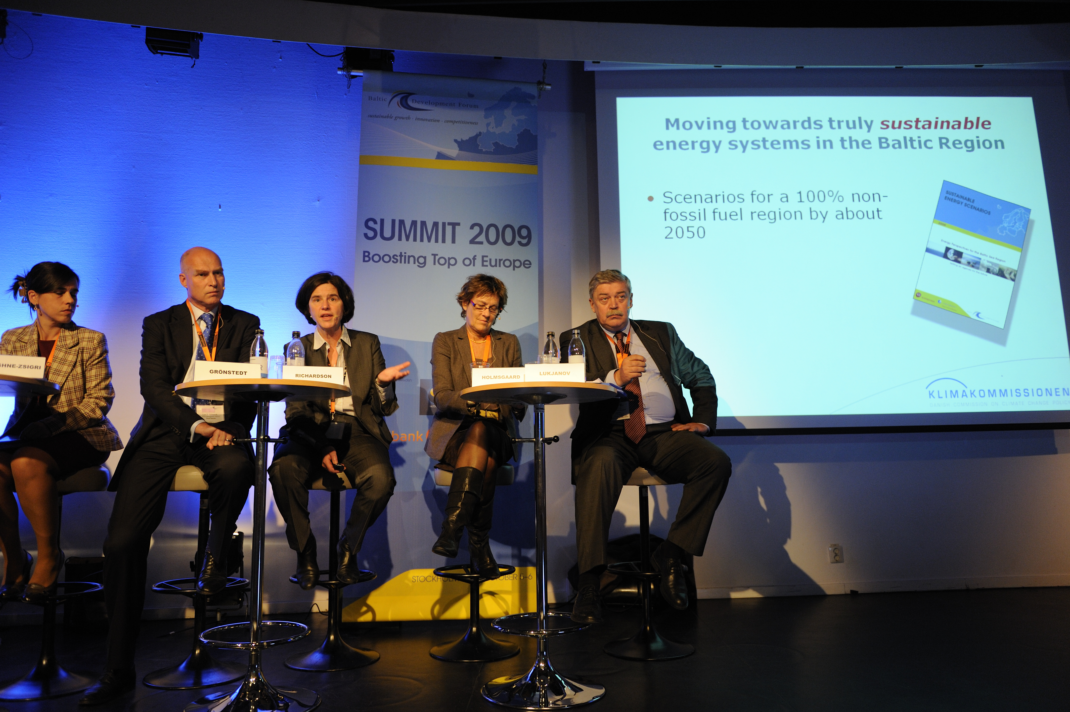 Monika Eordoghne-Zsigri, Policy Coordinator, Unit for Energy Policies and Security of Supply, European Commission. Lars O. Grönstedt, Senior Adviser, Nord Stream. Katherine Richardson, Professor, Chairman, Danish Commission on Climate Change Policy. Anne Grete Holmsgaard, MP, Denmark. Yevgenij Vladimirovitch Lukjanov, Deputy Plenipotentiary, North-West Federal District, Russian Federation. Photo by Kai Thomas Engström.